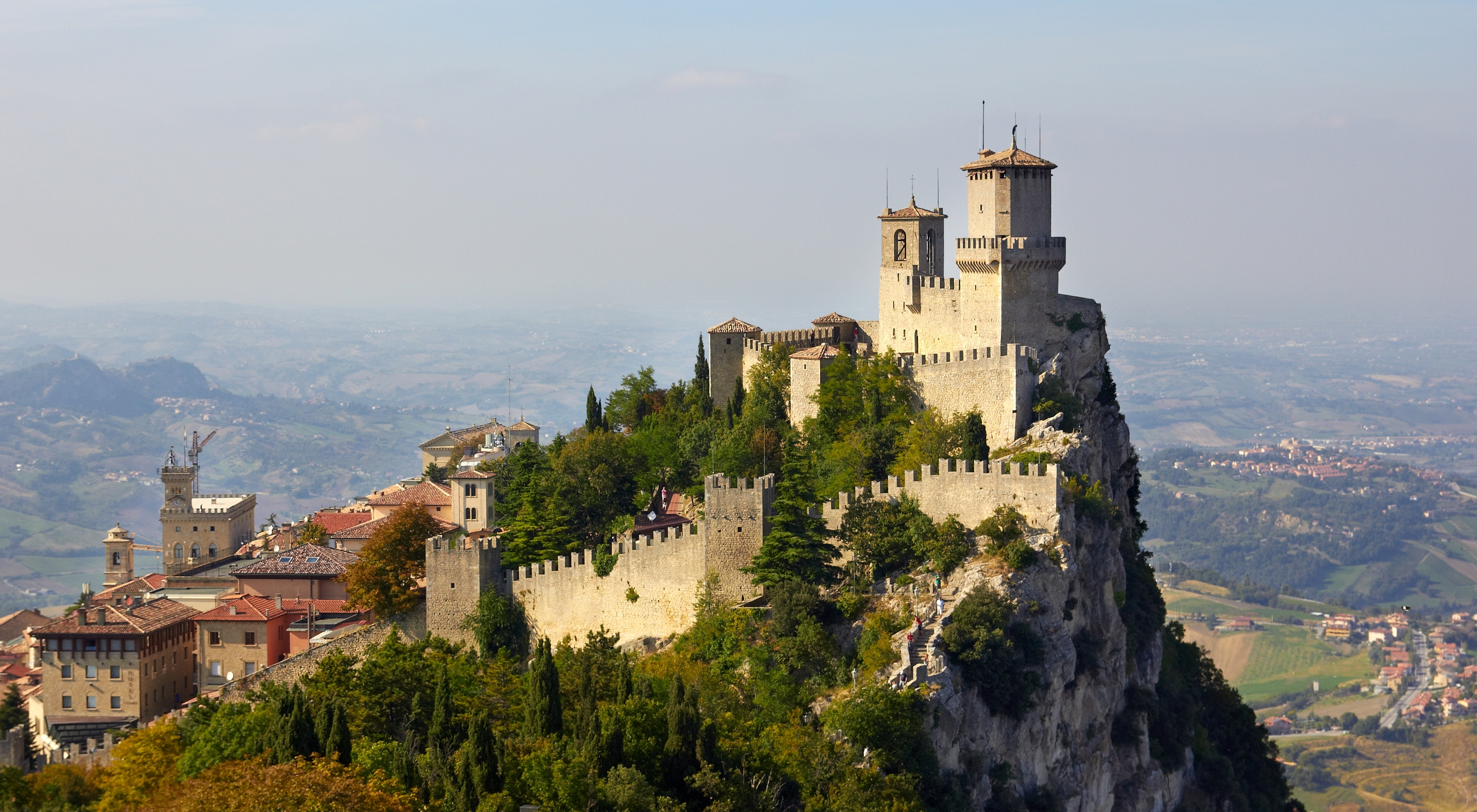 The fortress of Città di San Marino, viewed from the side of Torre Guaita on Monte Titano (Appennino tosco-romagnolo), Central Italy. UNESCO World Heritage Site.